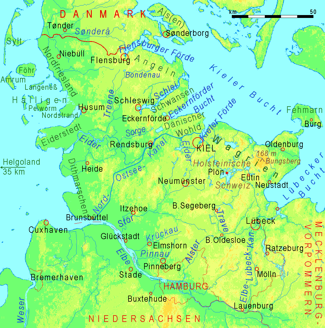 physical map of Schleswig-Holstein with names of landscapes, rivers, and cities